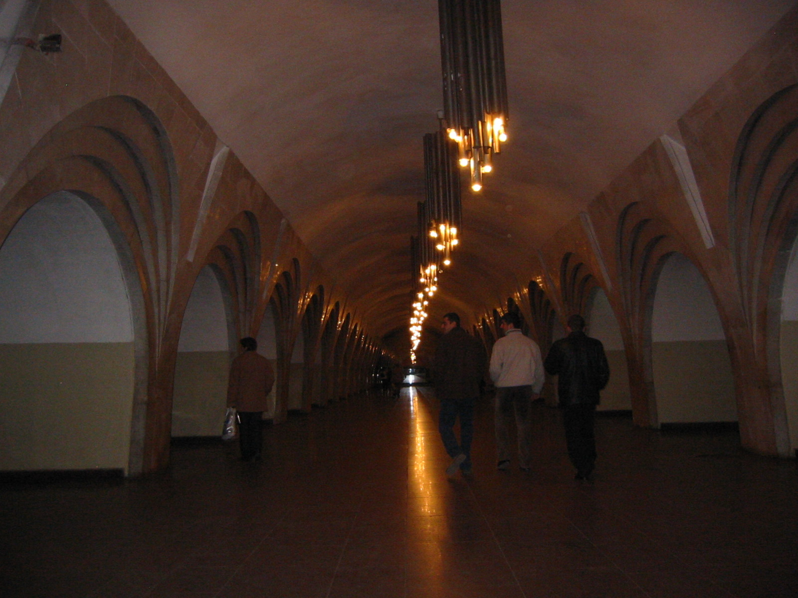 Republic Square metro station, Yerevan, Armenia